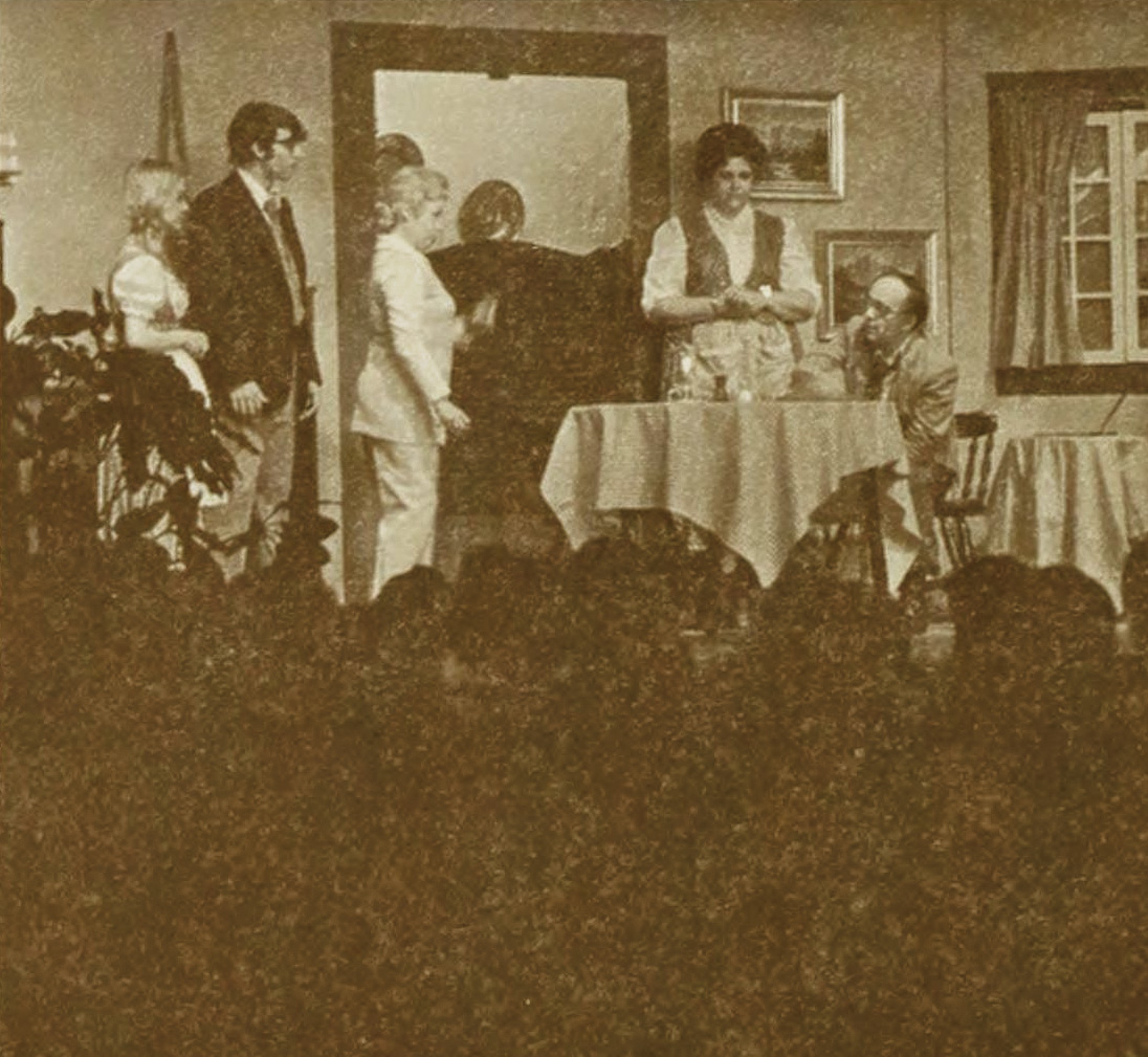 The Circle Rochambeau theatre troupe performs a play during Holyoke's Centennial festivities.